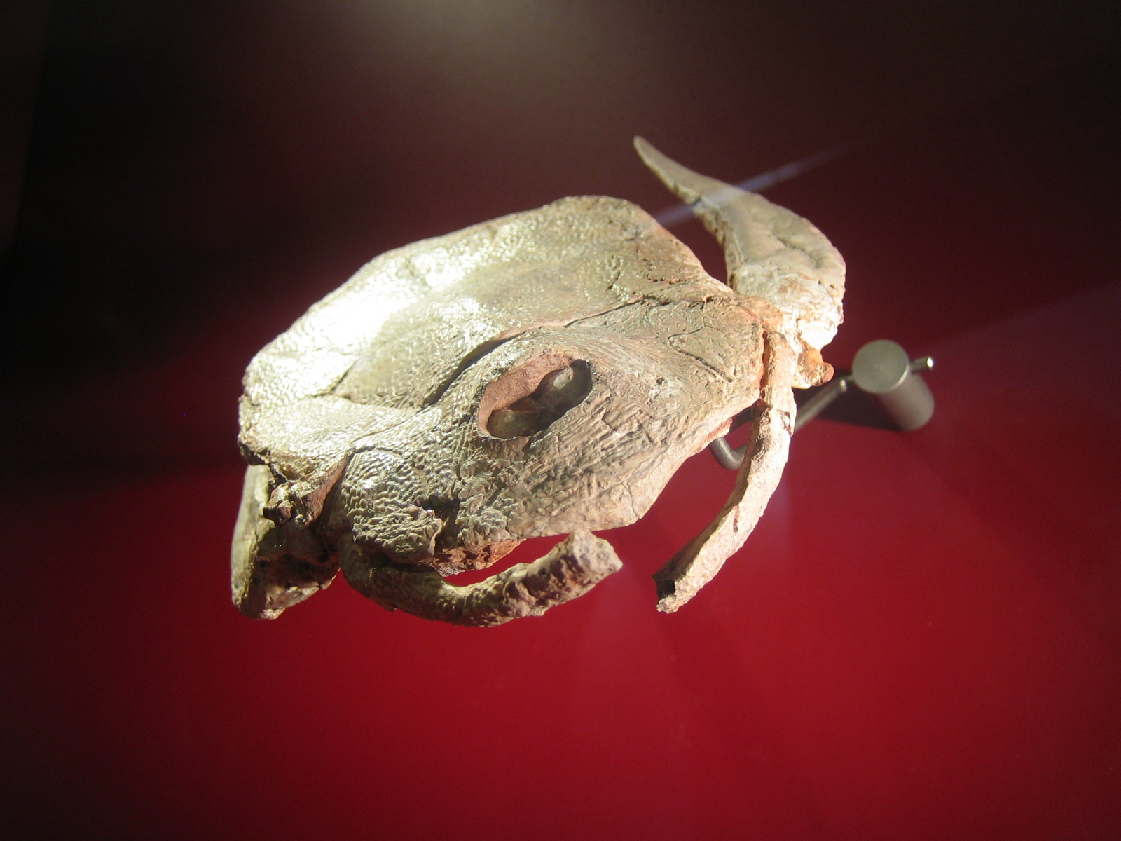 Bothriolepis in Cosmocaixa, Barcelona